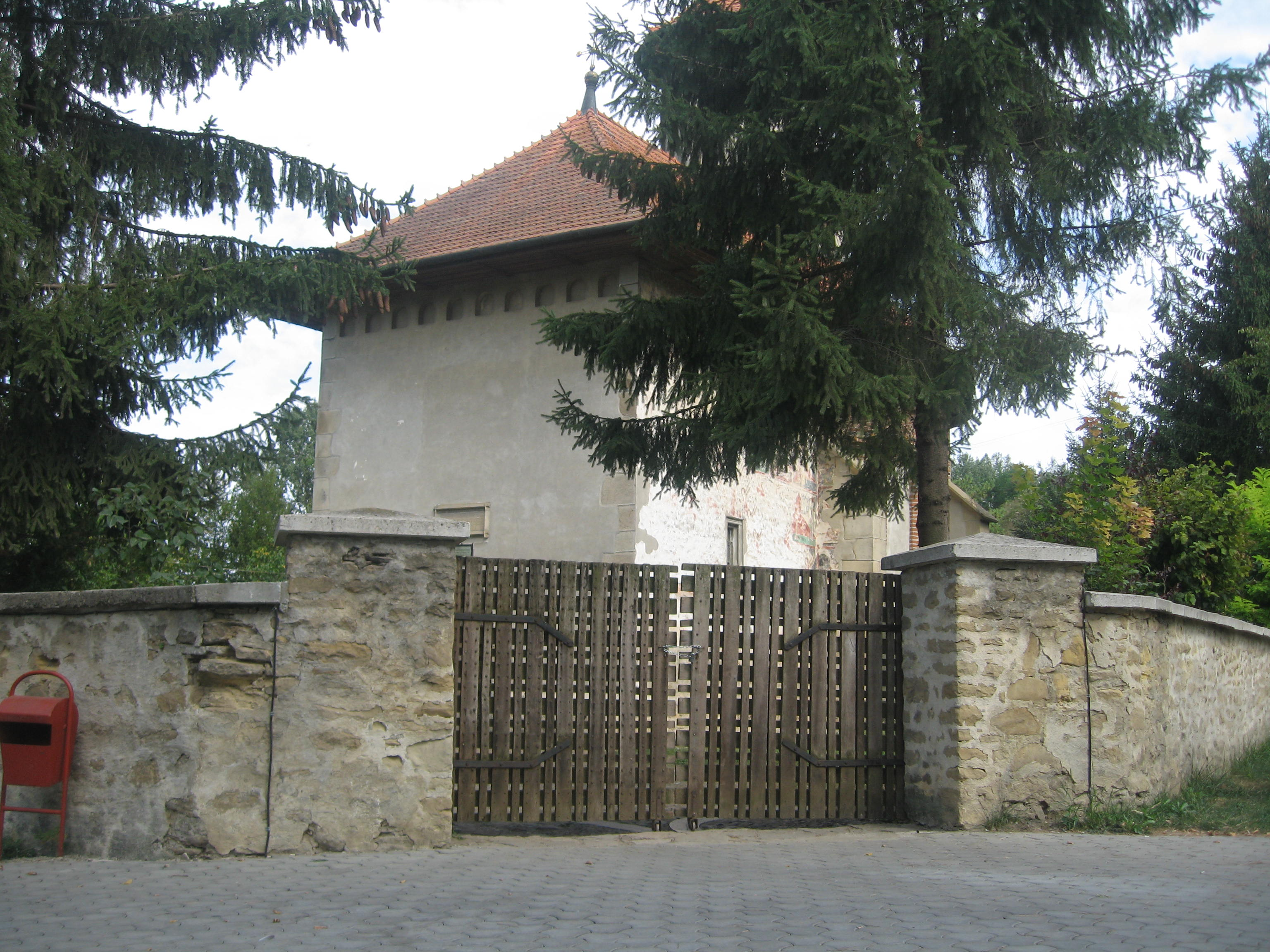 Biserica Sfântul Ilie din Sfântu Ilie 03